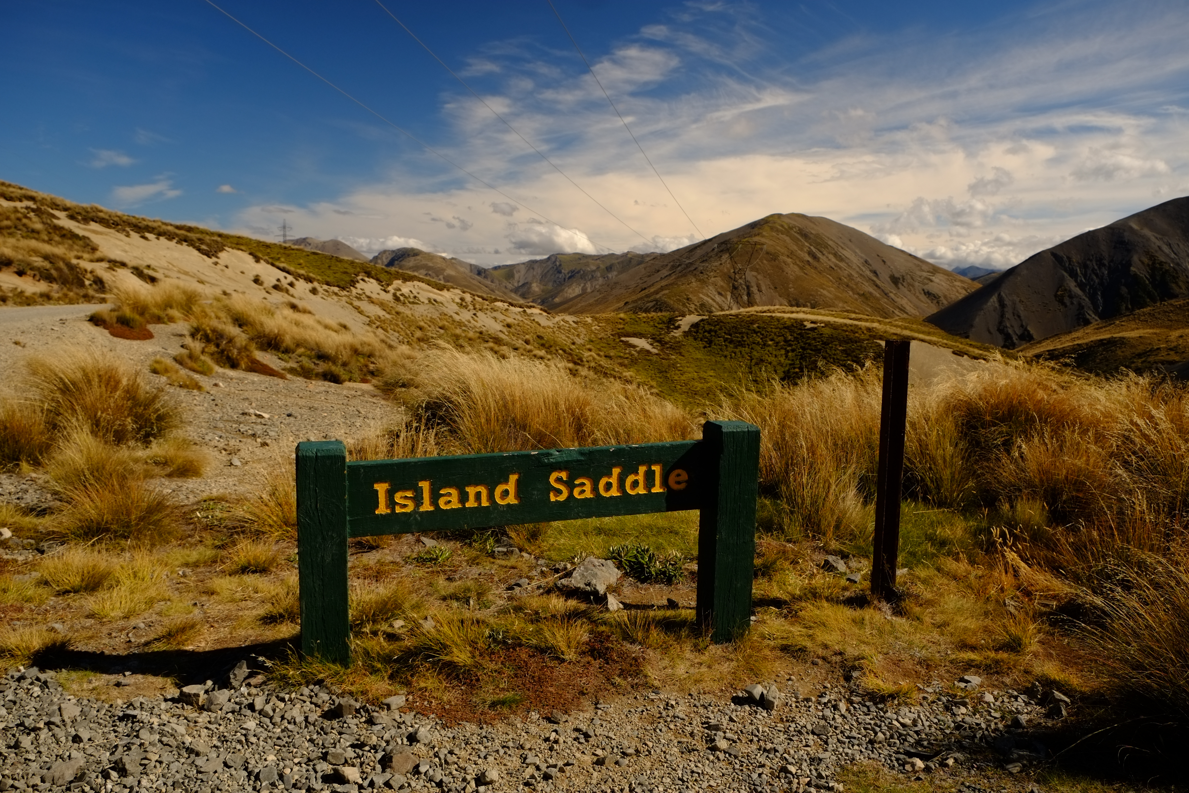 the road beyond Lake Tennyson